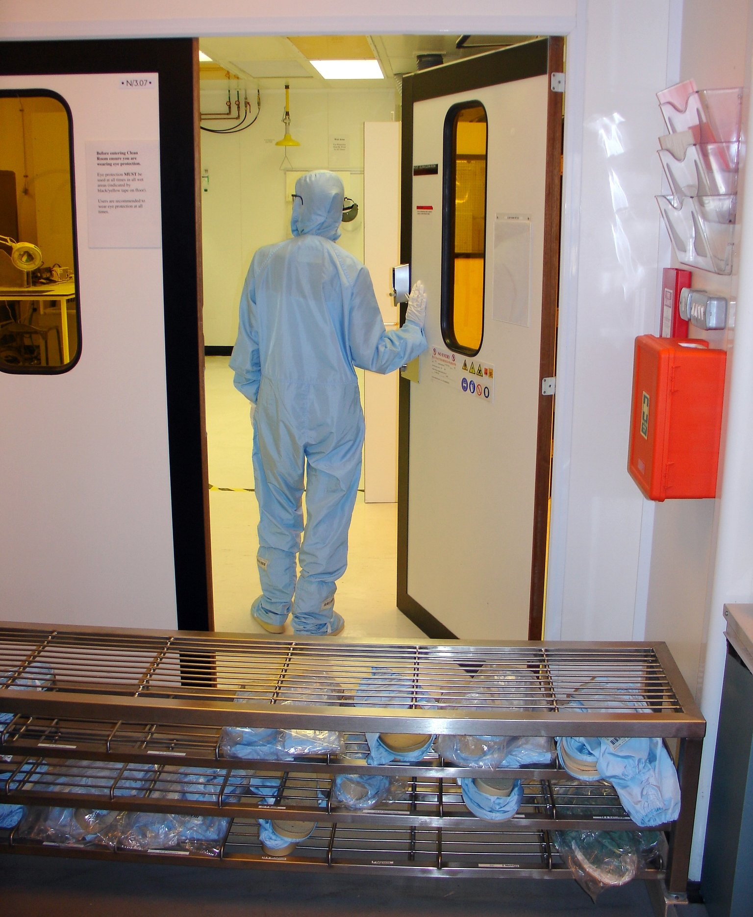 The entrance to the cleanroom (without an air shower).